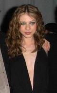 Michelle Trachtenberg at the Buffy the Vampire Slayer wrap party.